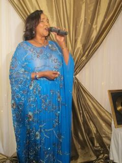 Somali singer Saado Ali Warsame performing at an SRAP event in her honour in Toronto (2011).